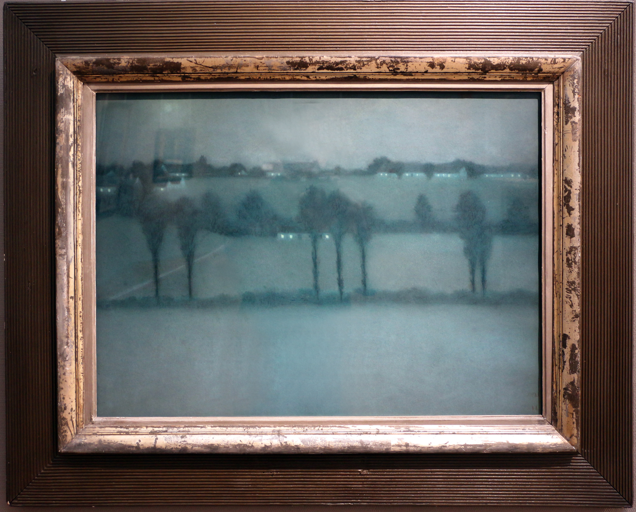 Museum of Ixelles